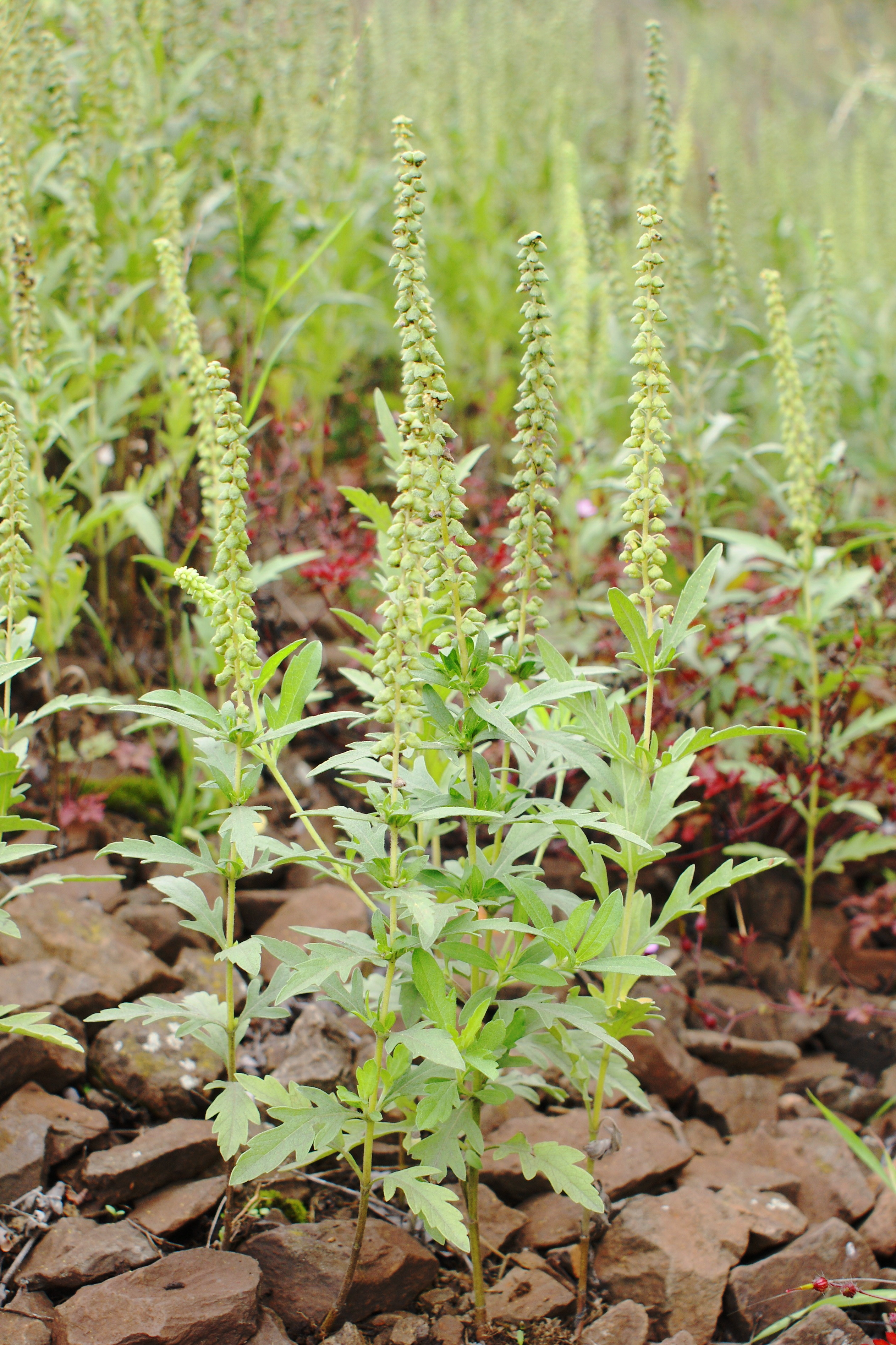 Ambrosia psilostachya